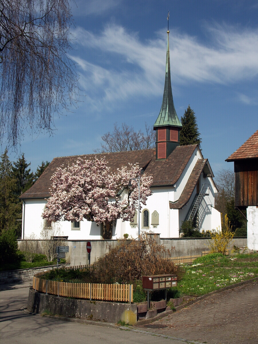 Reformed Church of Urdorf (ZH), Switzerland